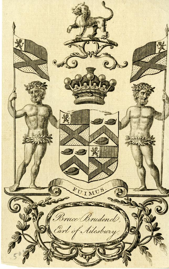 Armorial/Heraldic Bookplates. Subject: Coat of arms; Shields; Men; Crowns; Animals; Flags. Subject - Personal Name: Brudenel, Bruce.